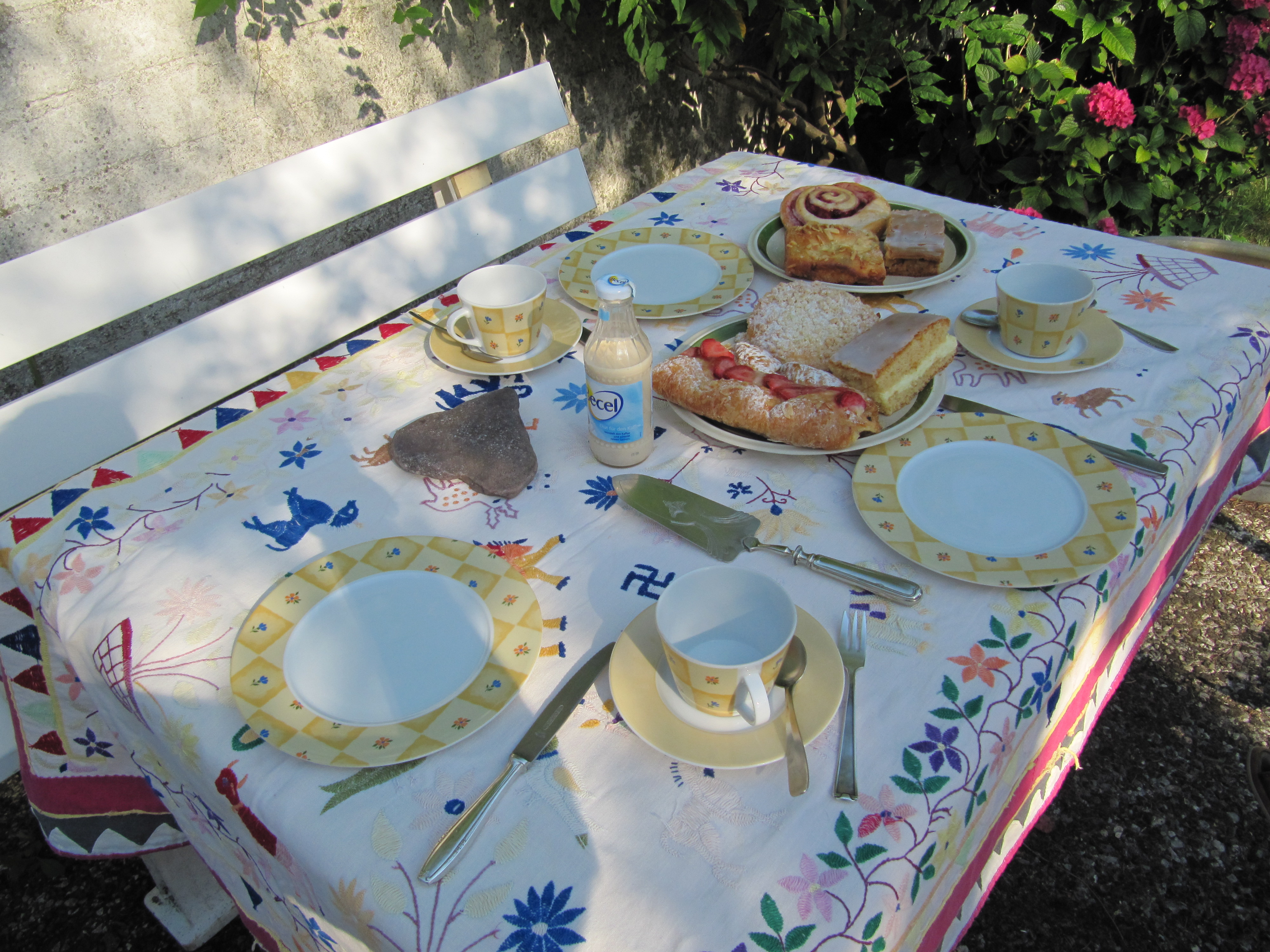 Coffee and pastries in Germany with a precision: the sign on the tablecloth is not a swastika but as the tablecloth comes from India the sign going the other direction means good things